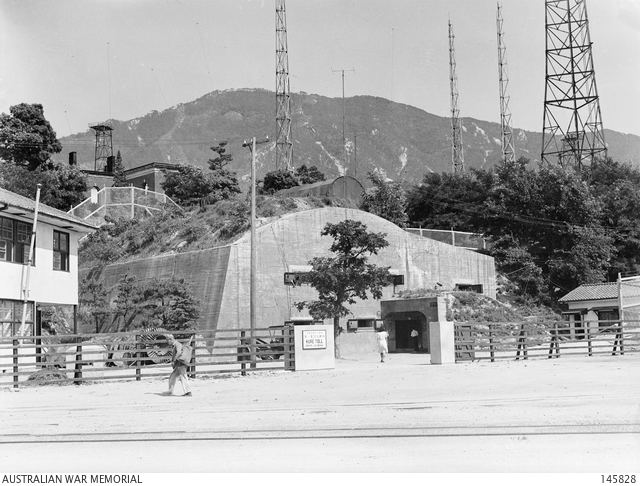 Kure, Japan. 1948-09-08. Exterior of Kure Toll (Dover Exchange), Headquarters Signals Regiment, BCOF, which handles approximately 8,000 automatic calls a day. A covering of snow on the ground surrounds the buildings.